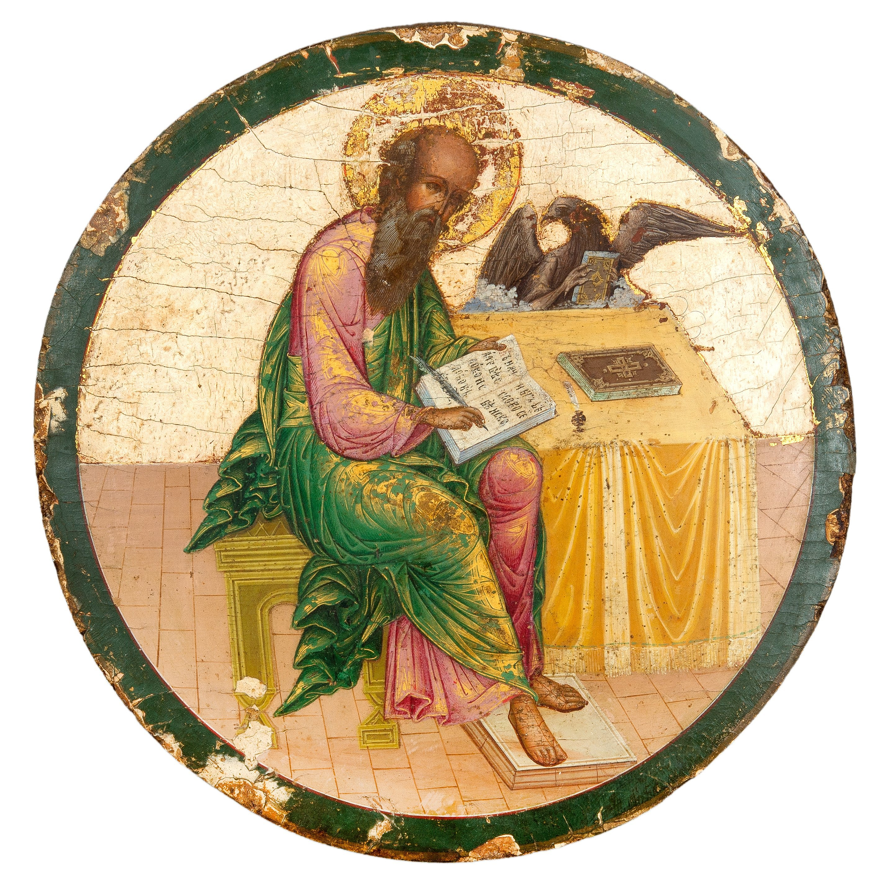 John the Evangelist. Tempera on woodpanel. Russia early 19th century. Diameter 30 cm.